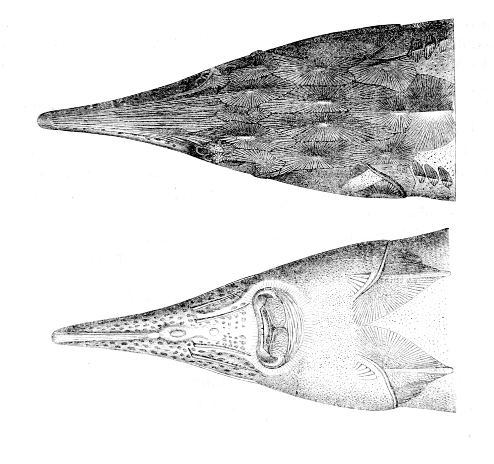 Head of Acipenser ruthenus